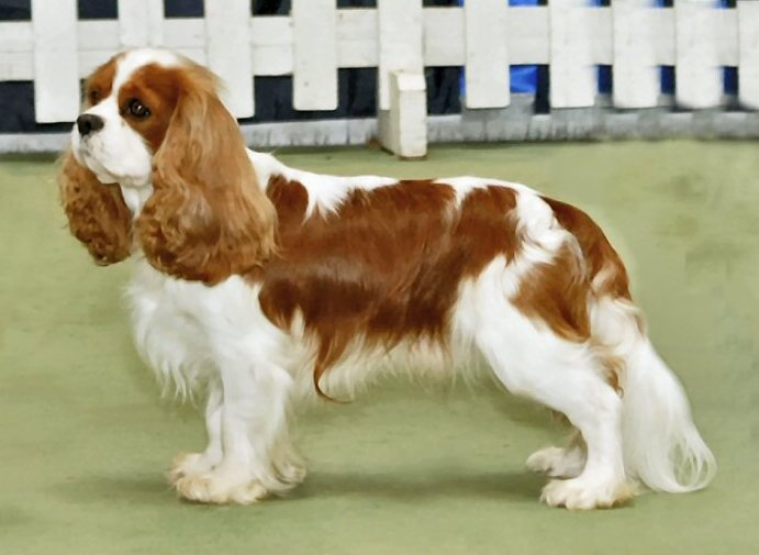 BEST IN SHOW SPECIALITY WINNER - NZ Champion Merseyport Carter Of Darilance (Imp Aust)- owner Jan Eatock (Darilance Cavaliers) New Zealand